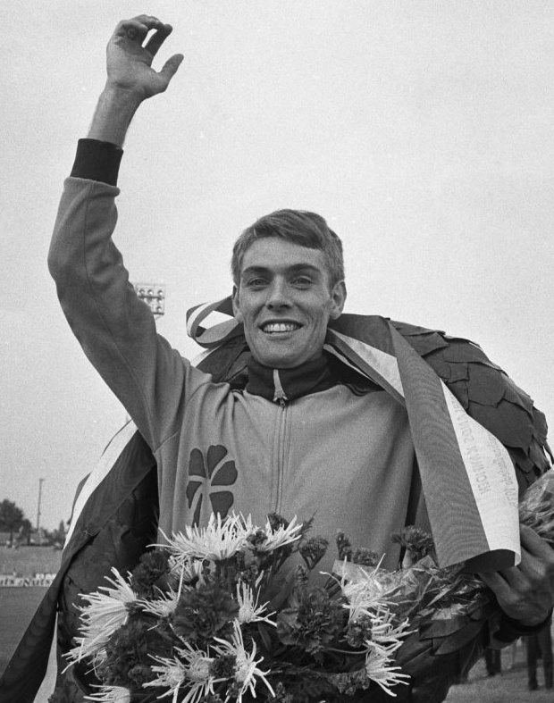 Cor Vriend